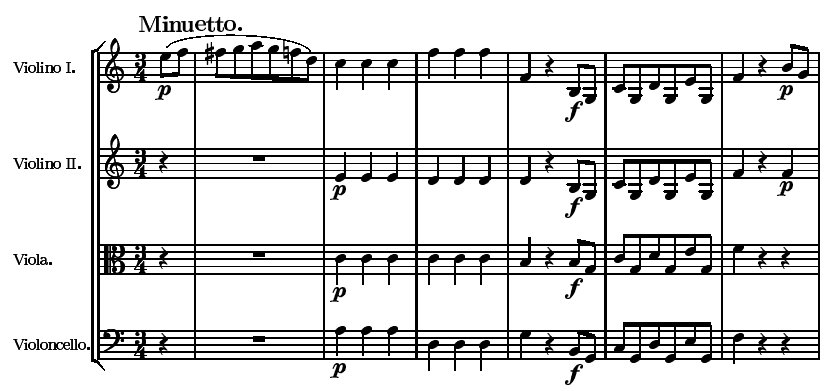 Opening of 3rd Movement of Quartet No. 19 (Mozart) "Dissonance" Breitkopf & Härtel edition, 1882, typeset by Maurizio Tomasi and released by him into the public domain.